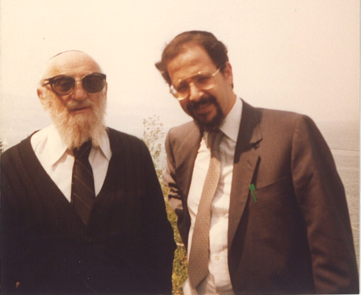 Rabbi Ahron Daum with Rabbi Simcha Elberg, Head of the Union of Orthodox Rabbis of the USA and Canada